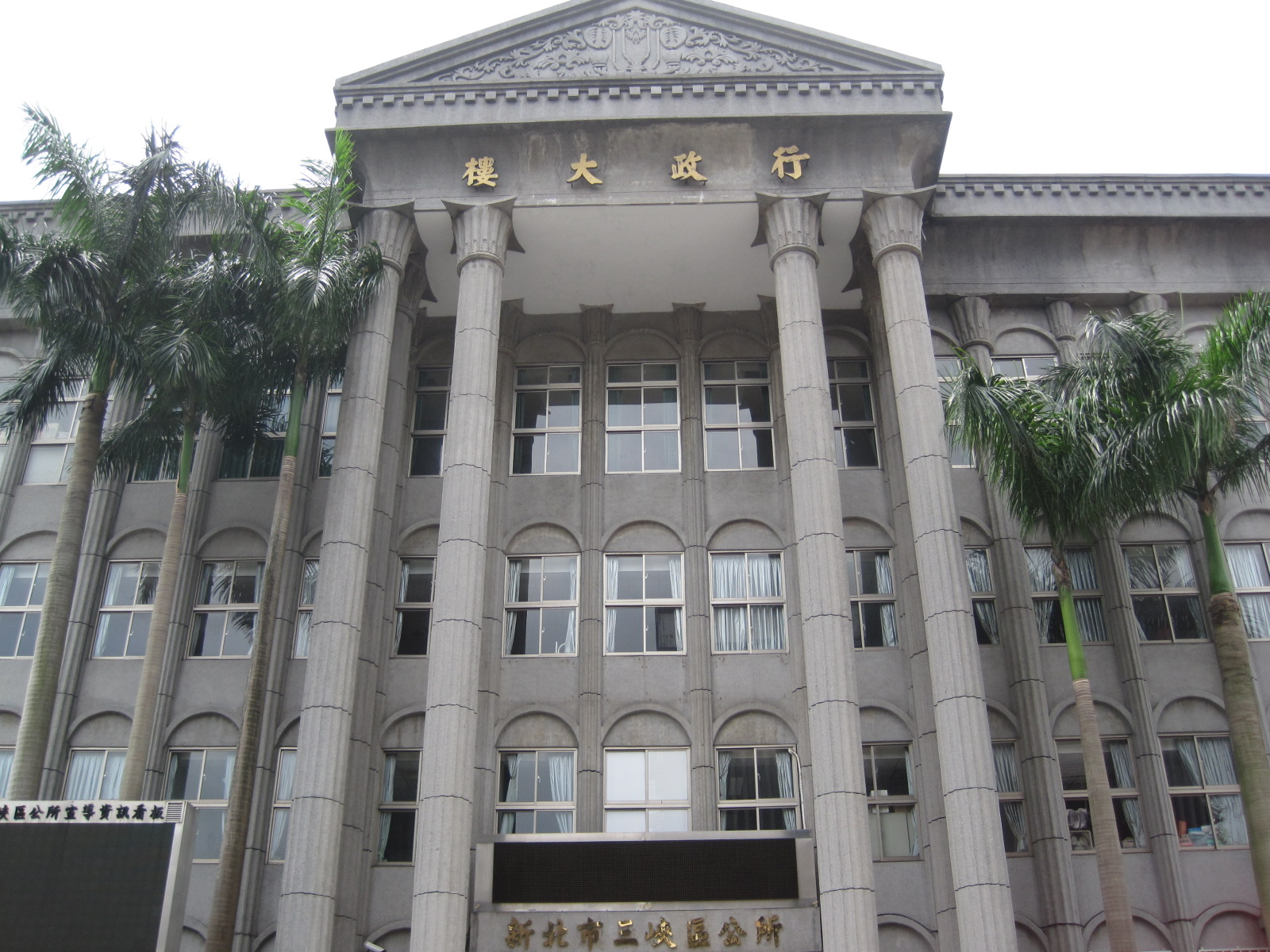 Sanxia District Office